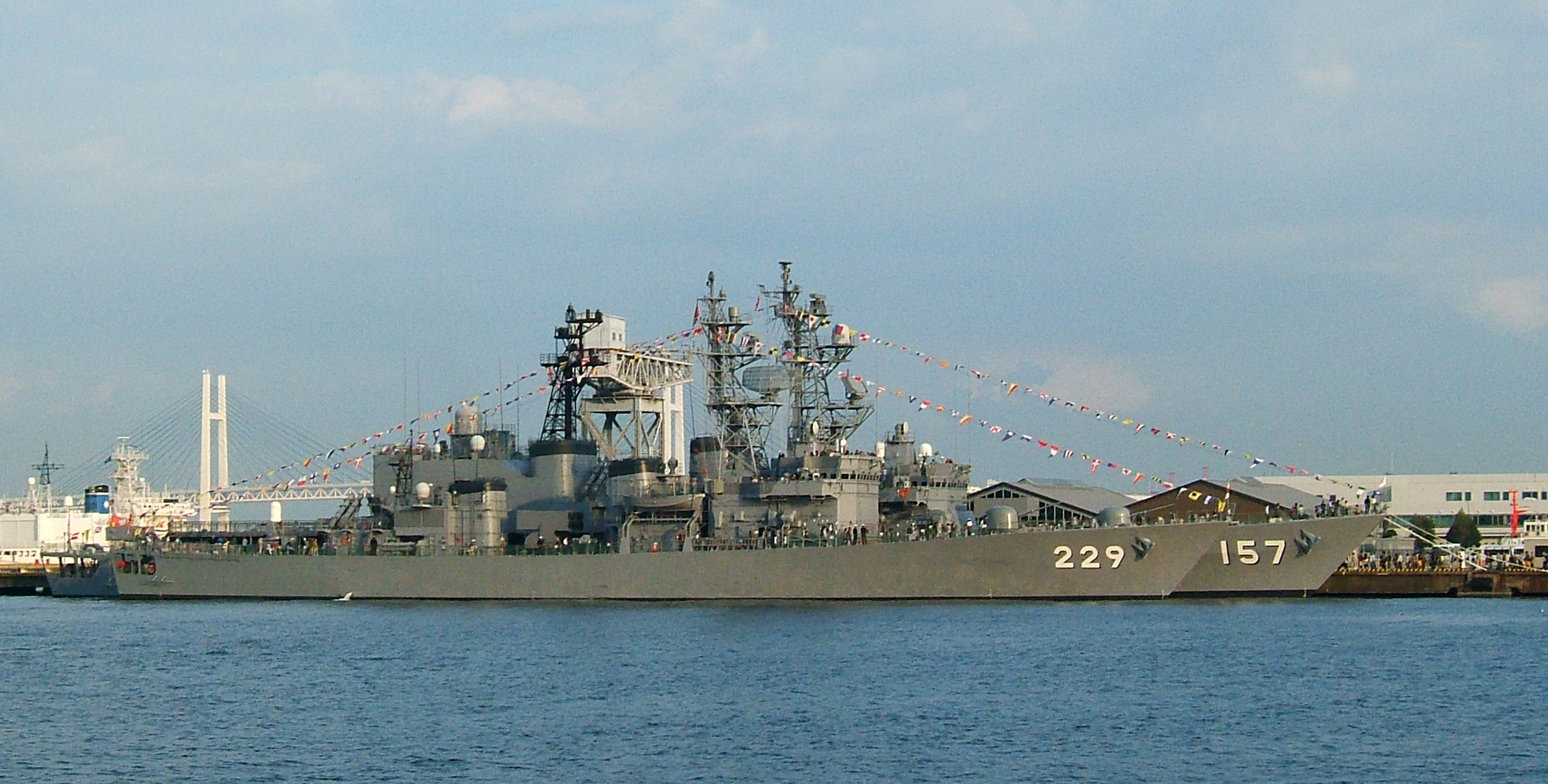 JS Abukuma (DE-229) and JS Sawagiri (DD-157) at Yokohama.